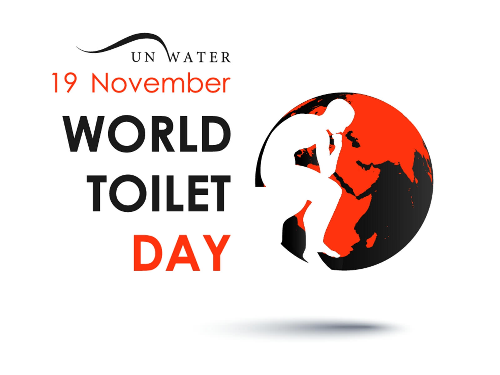 World Toilet Day is a day to raise awareness about all people who do not have access to a toilet – despite the human right to water and sanitation. This is the logo of the global campaign.